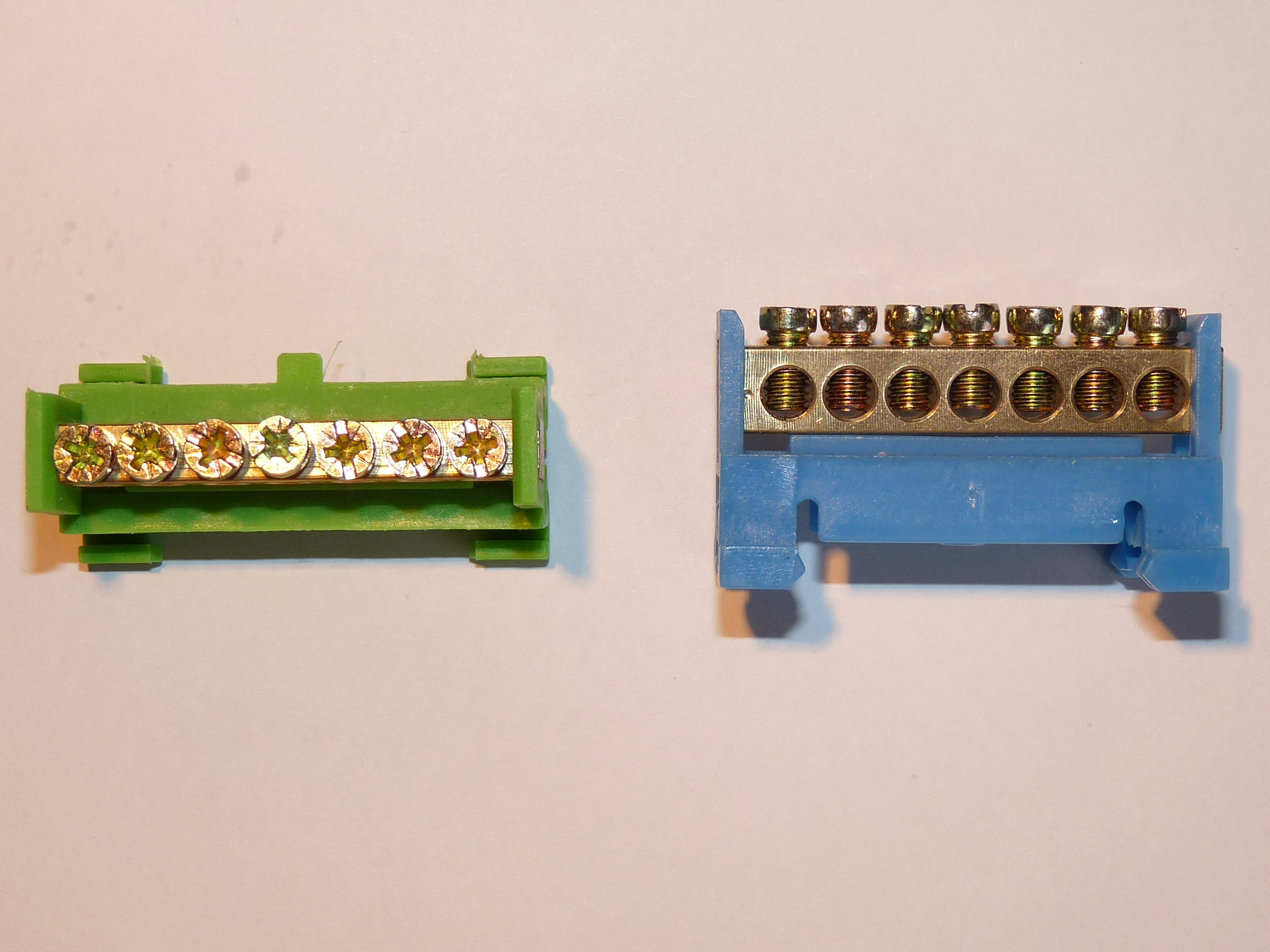 Additional busbars for zero (blue) and earth (green) poles.